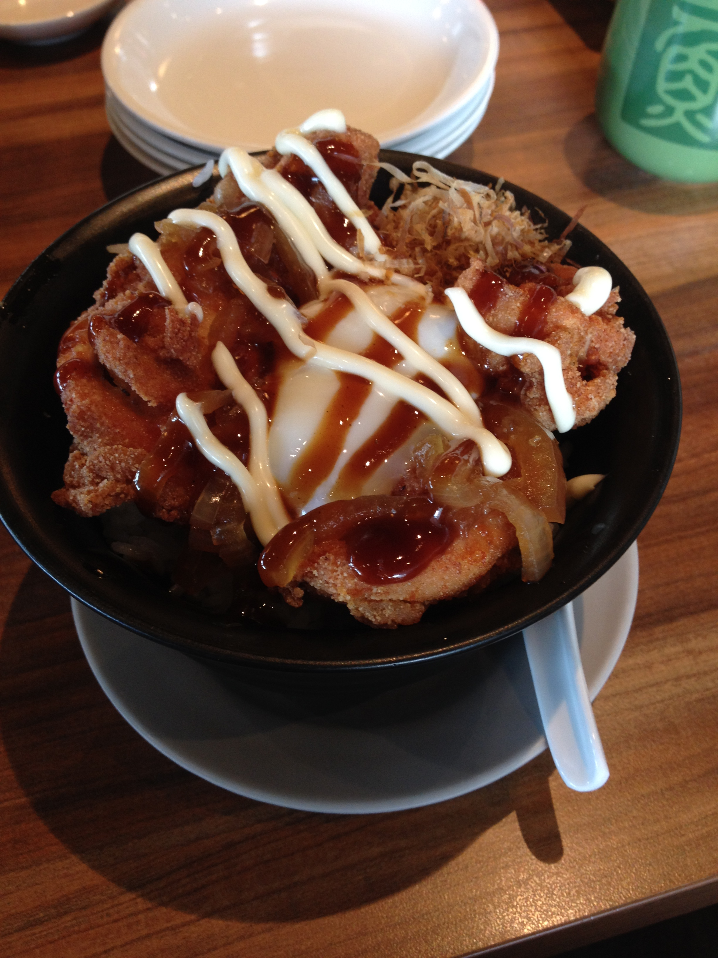 A bowl of Japanese rice topped with a deep-fried chicken pieces, soft boiled egg, vegetables and topped with condiments by Sushi Tei restaurant in VivoCity, Singapore